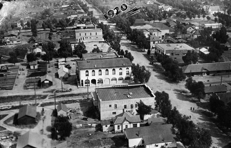 Panoramic view of Glendora Avenue (formerly Michigan Ave.) in Glendora. At the time the photograph was taken, Glendora began to have that "developed" appearance. The surge of prosperity had started 20 years earlier when plenty of water was found in the lands below the mouth of San Dimas Canyon. With that, the area really mushroomed.